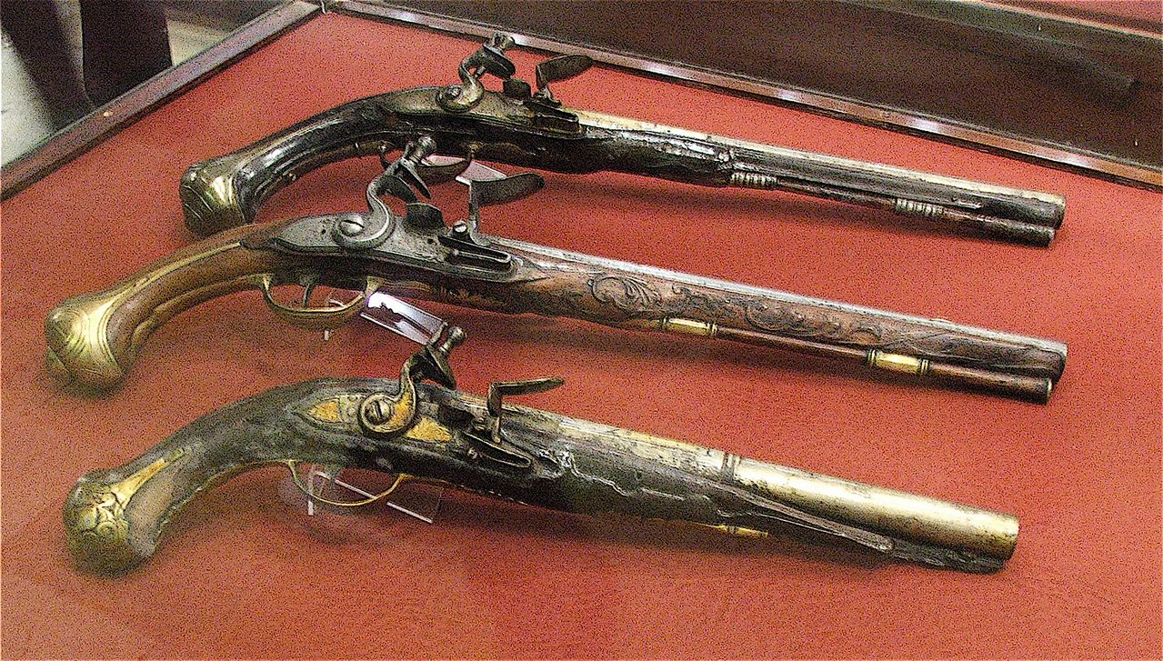 PISTOLS - In the first quarter of the 14th century, the firelock was developed, a simple, smooth-bore tube of iron, closed at the breech end except for an opening called a touchhole, and set into a rounded piece of wood for holding under the arm. The tube was loaded with shot and powder and then fired by inserting a heated wire into the touchhole.- MALTA